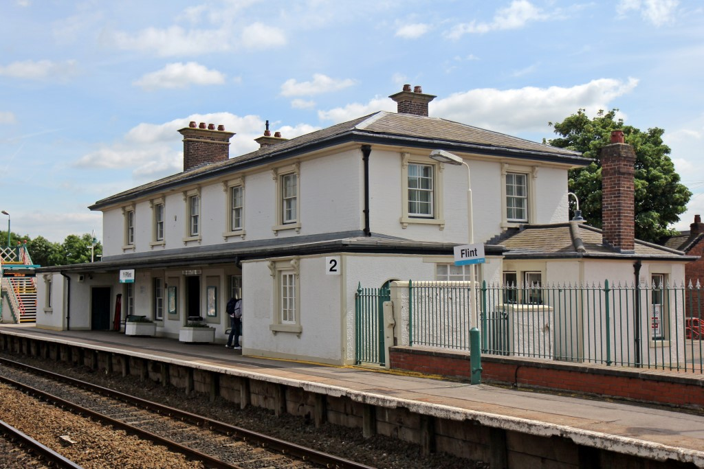 Station building, Flint railway station